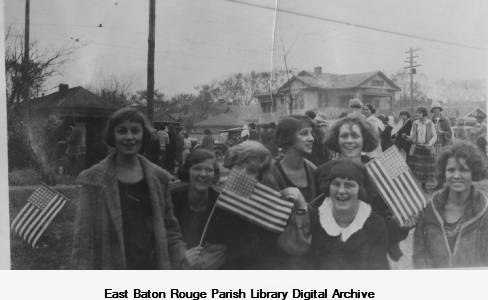 Gladys Brechtel and friends celebrate Armistice Day 1924 in Spanish Town. Taken from the 1925 scrapbook of Gladys Brechtel.